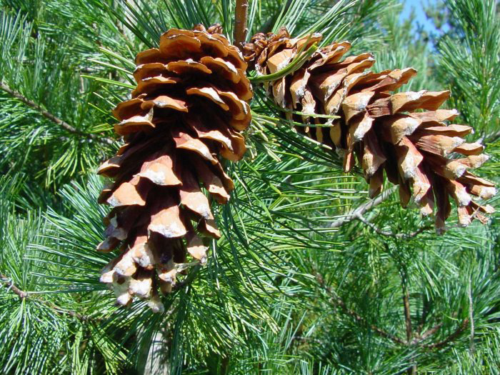 Pinus monticola mature open cones